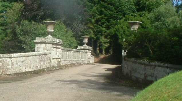 Arbuthnott House estate Ornamental bridge